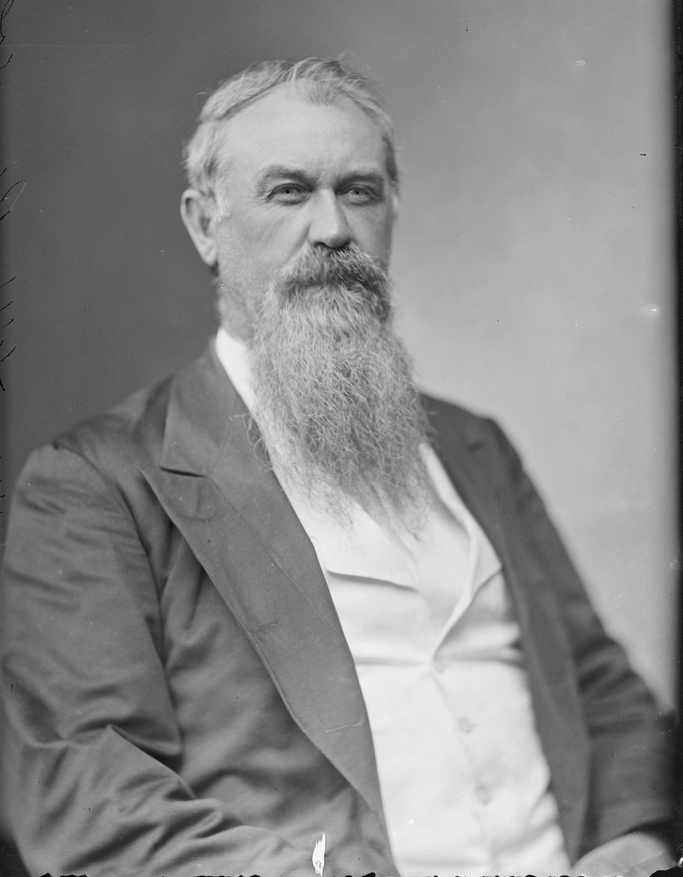 James Henry Randolph. Library of Congress description: "Randolph, Hon. J.H. of Tenn".